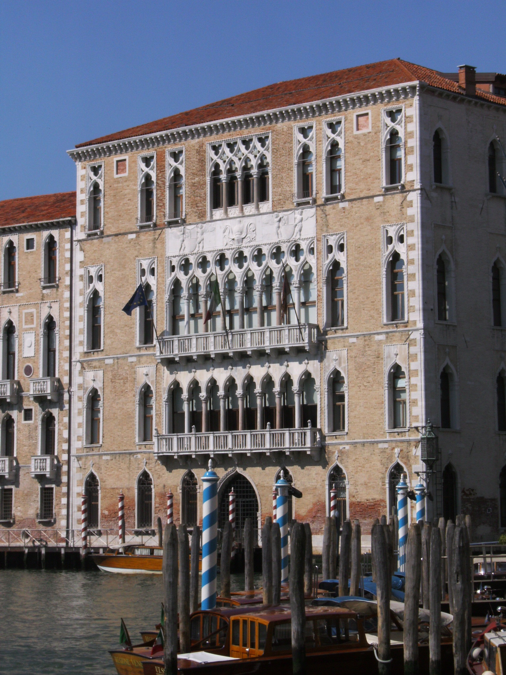 Cà Foscari in Venice shot from "San Toma'" landing station for water buses